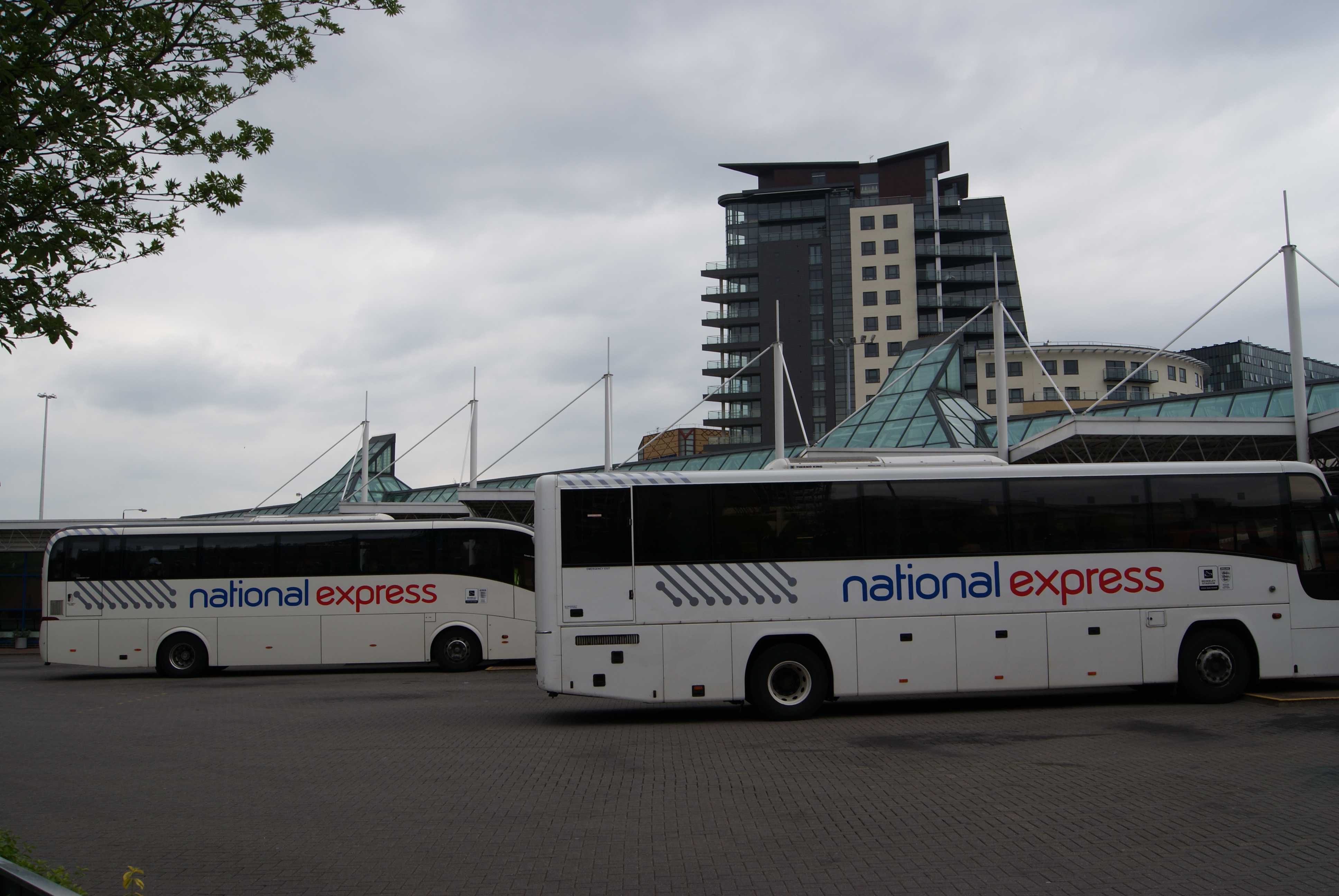 Two National Express Coaches at Leeds City bus and coach station. Buses use the other side of the station. Taken on the afternoon of Tuesday the 4th of May 2010.